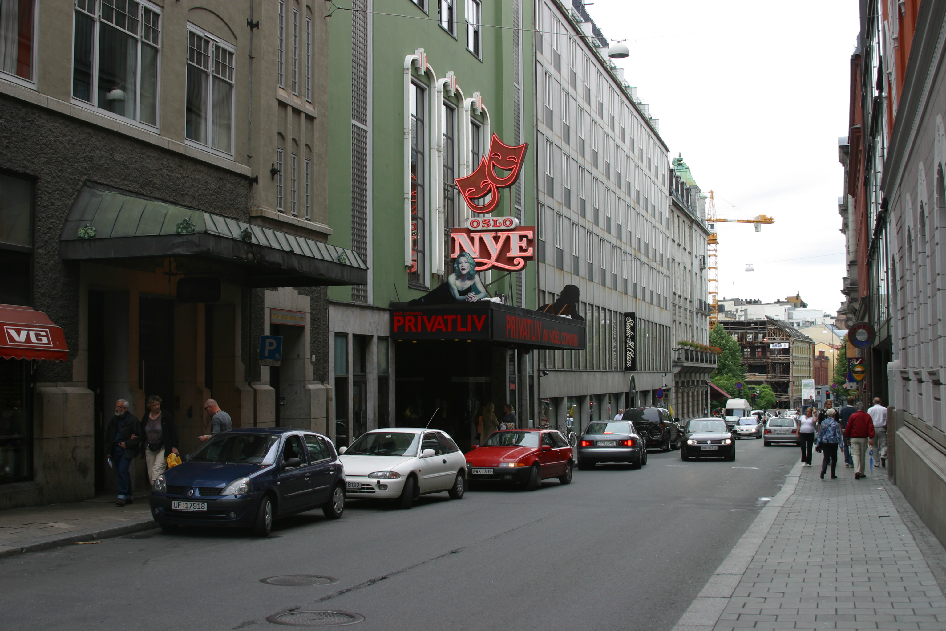 Picture of Rosenkrantz' gate (Oslo - Norway)